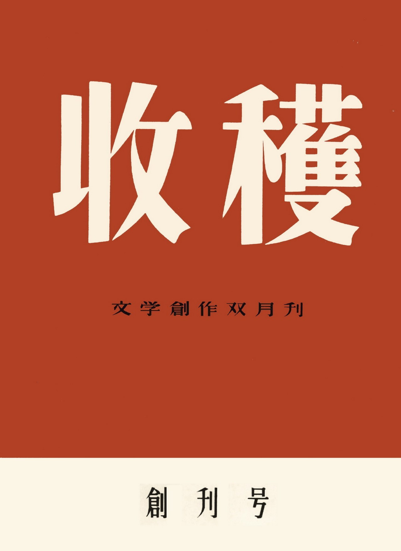 Cover of Issue 1, Harvest (Published Jul 24 1957), designed by Qian Juntao (钱君匋)